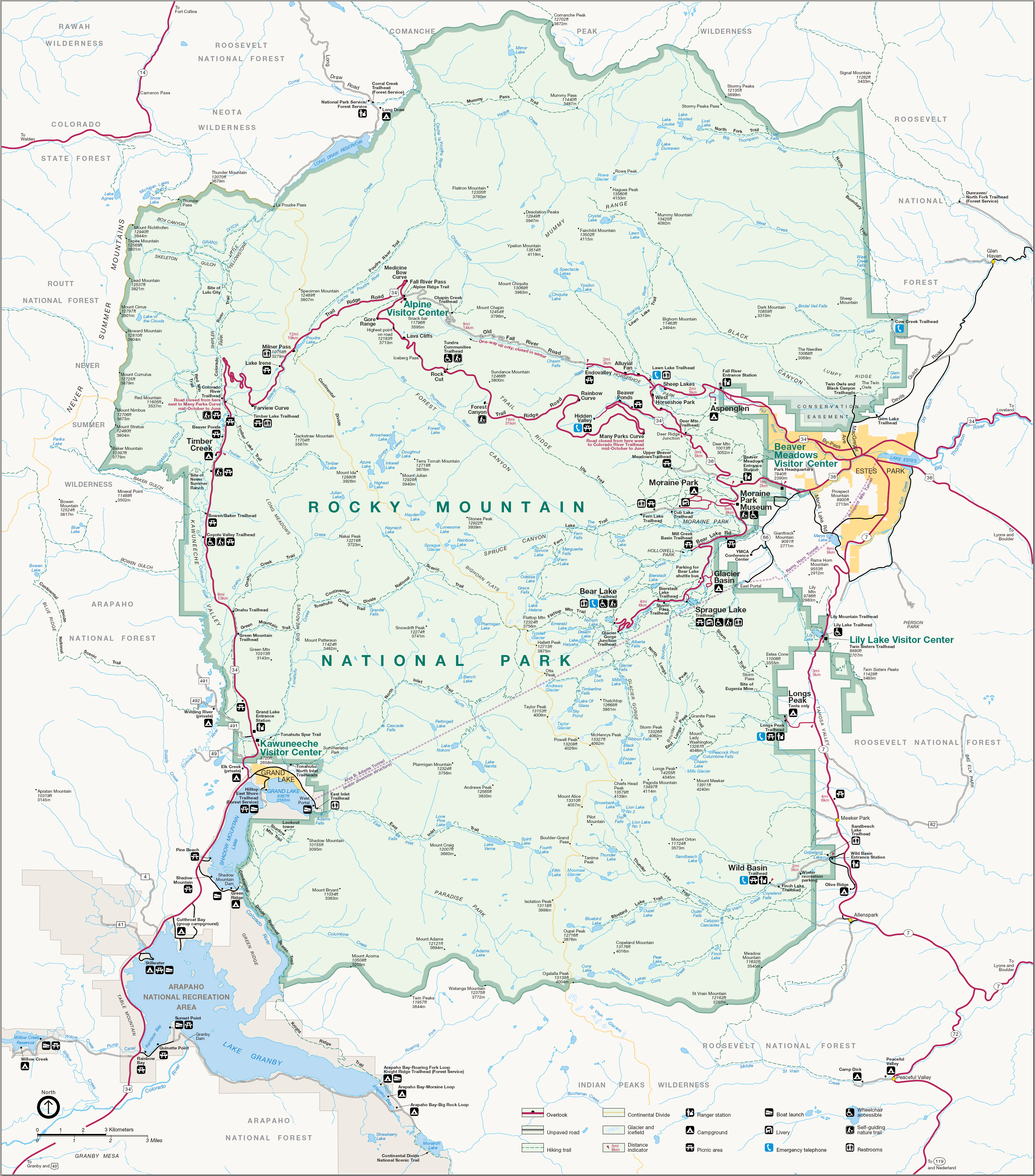 Map of Rocky Mountain National Park